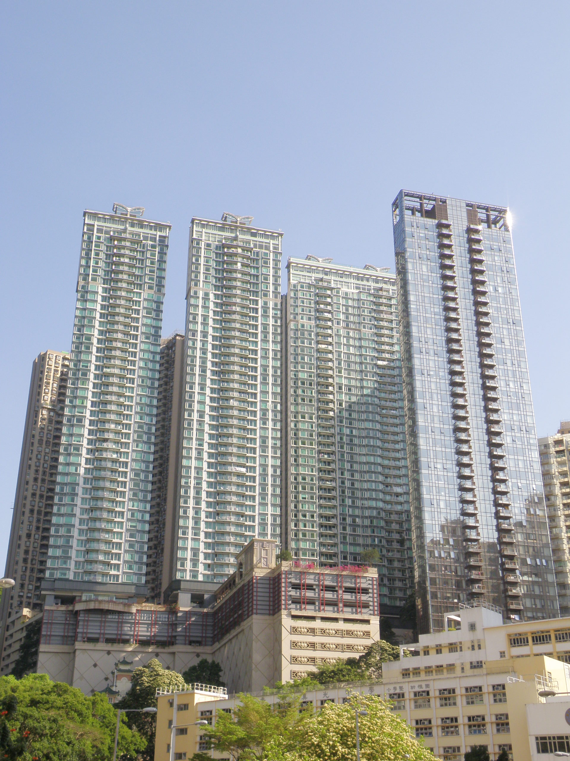 The Legend, The Signature and Haw Par Mansion in Tai Hang, Hong Kong.